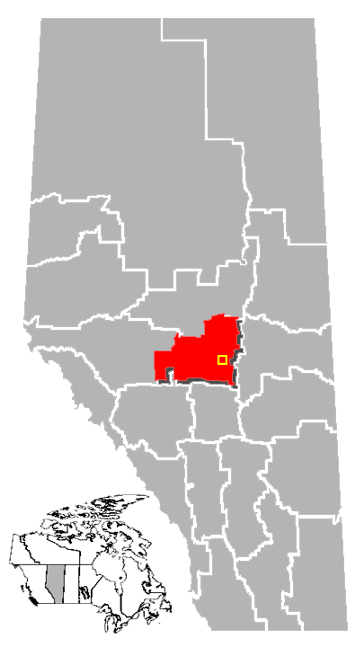 Location of Leduc, Census Division No. 11, Albera